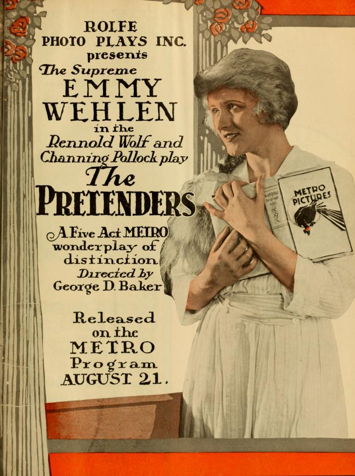 Advertisement in The Moving Picture World for the American film The Pretenders (1916).